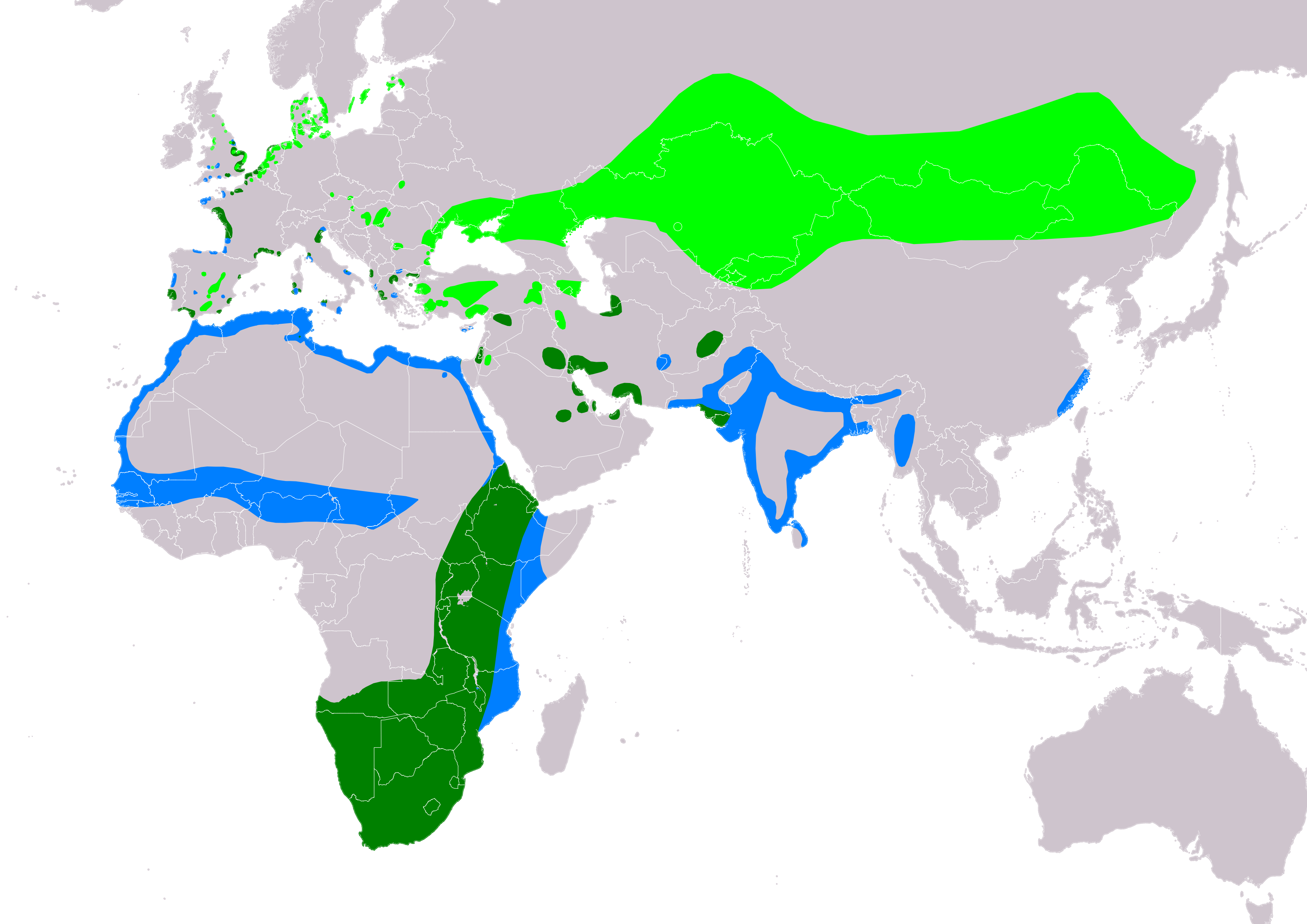 Distribution map of pied avocet (Recurvirostra avosetta) according to IUCN verzion 2019.2 ; key: Legend: Extant, breeding (#00FF00), Extant, resident (#008000), Extant, non-breeding (#007FFF)